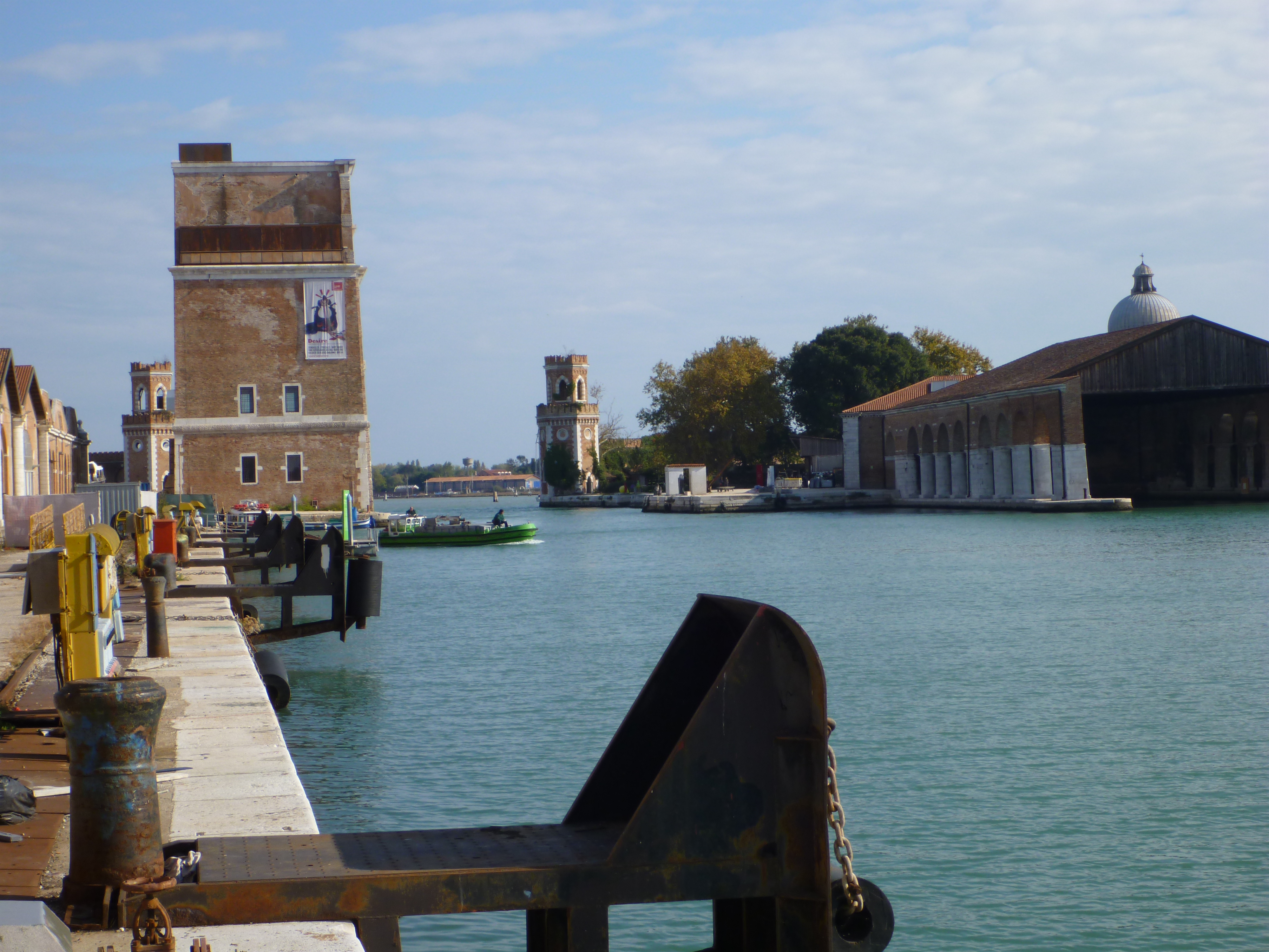 Canale di Porta Nuova, Arsenal (Venice)